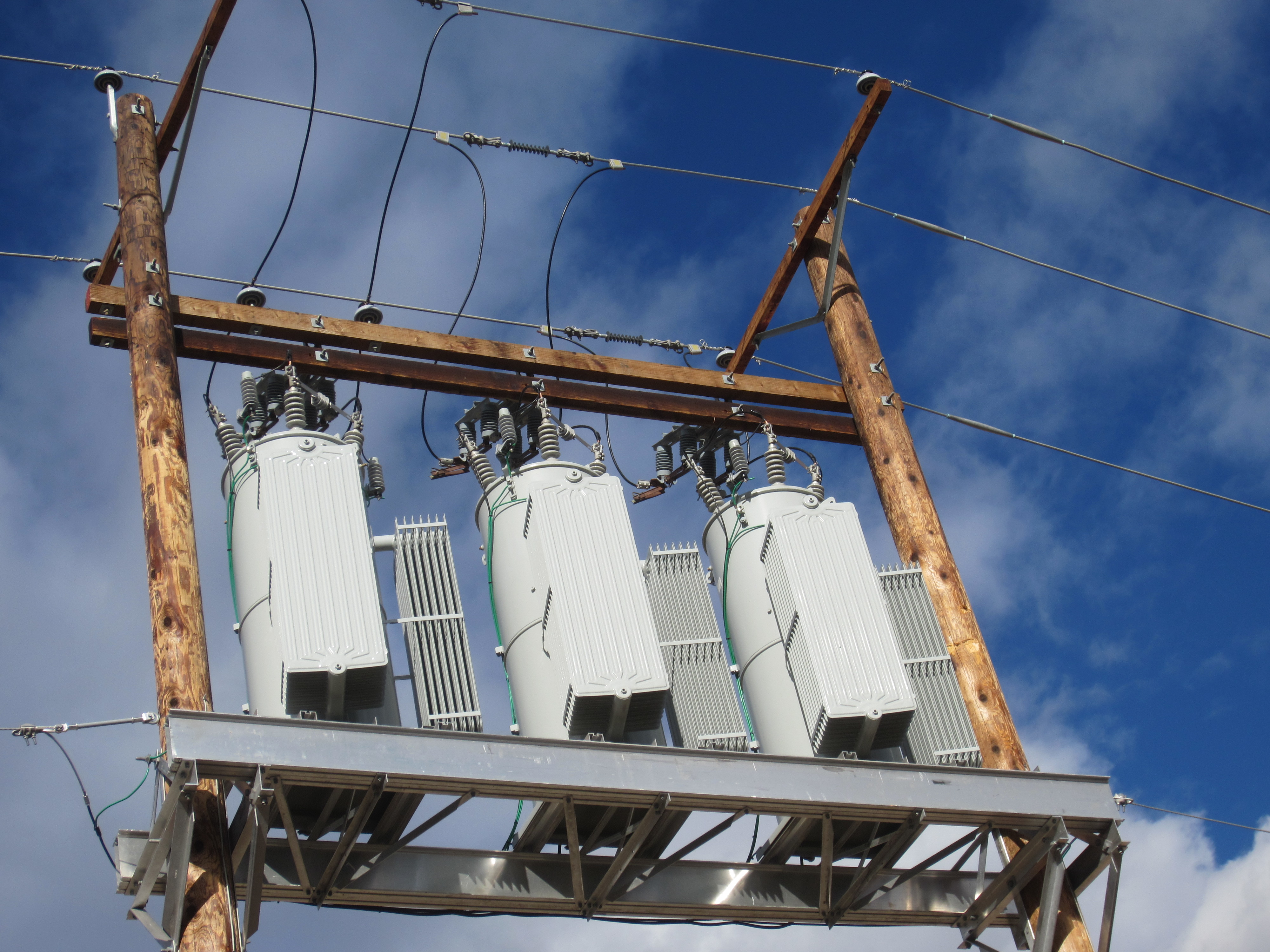 A three-phase bank of voltage regulators rated 400 Amps, 14400/24940VY 60 Hz. Each regulator contains an oil-filled autotransformer with 32 taps to change voltage + or - 10%. Voltage regulators such as this are used to control the voltage on long AC power distribution lines. This bank is mounted on a wooden pole structure. Each regulator weighs about 2600 lbs and is rated 576 kVA. Control boxes (not shown) for each regulator are mounted near grade level. A voltage regulator bank can be distinguished from a step-down transformer bank by observing that incoming and outgoing wires are of similar construction, the same voltage class. Photo taken near Castlegar, BC Canada